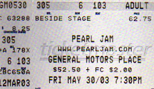 Pearl Jam 2003 ticket